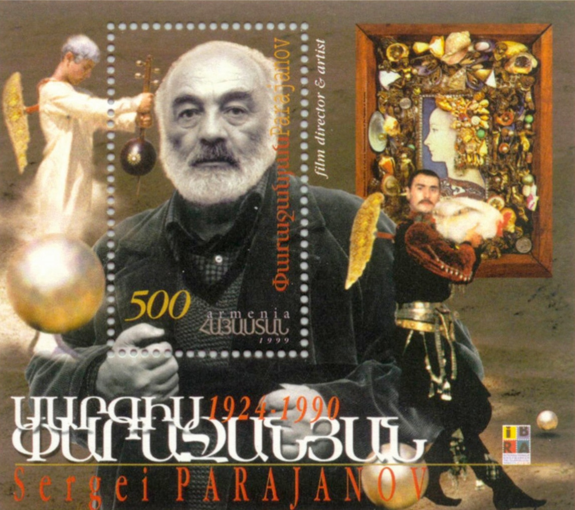 Stamp of Armenia